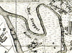 Map of Hanover in 1873